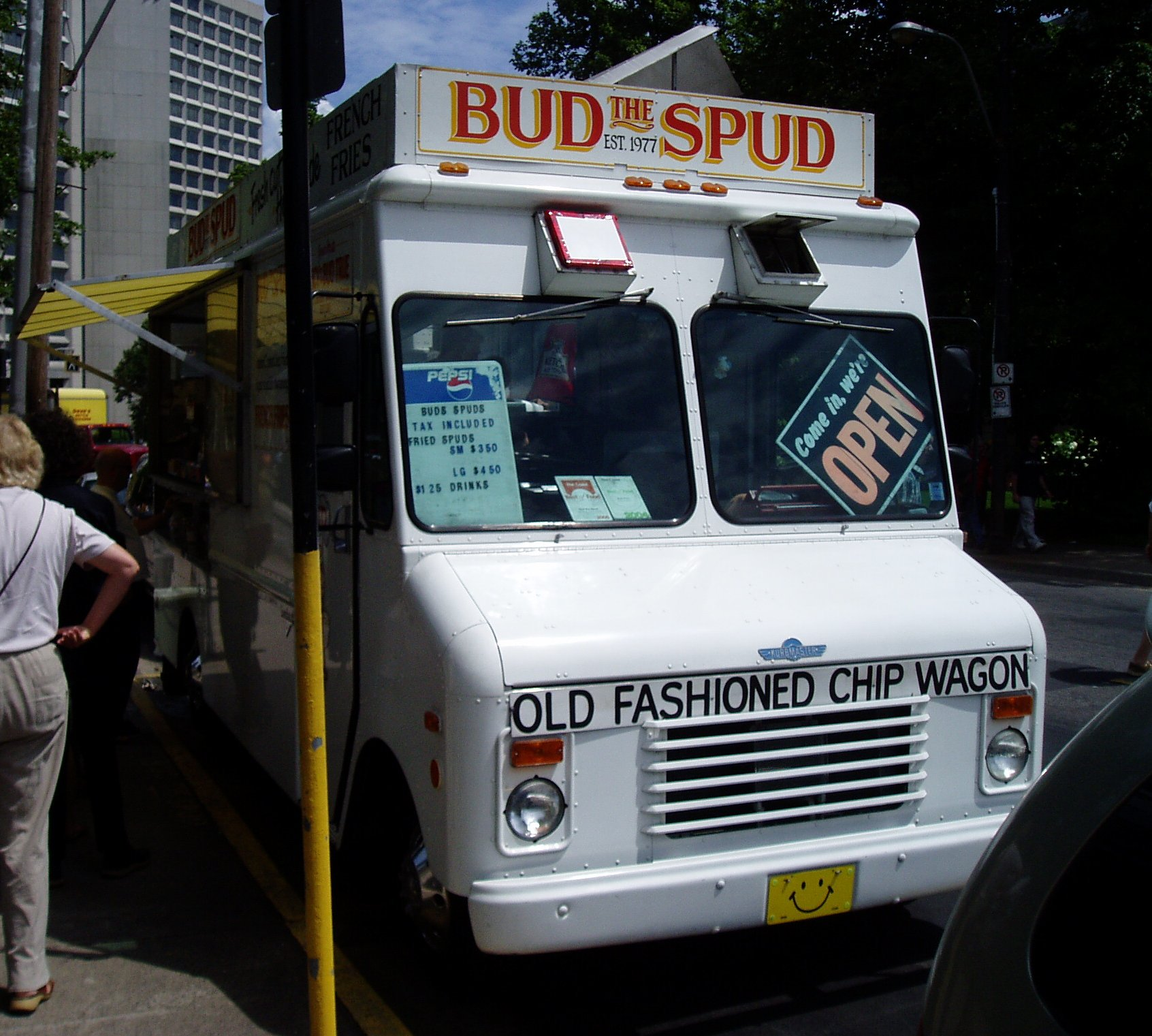 Bud the Spud, an iconic chip catering truck in Halifax, Nova Scotia, Canada. Taken by SimonP